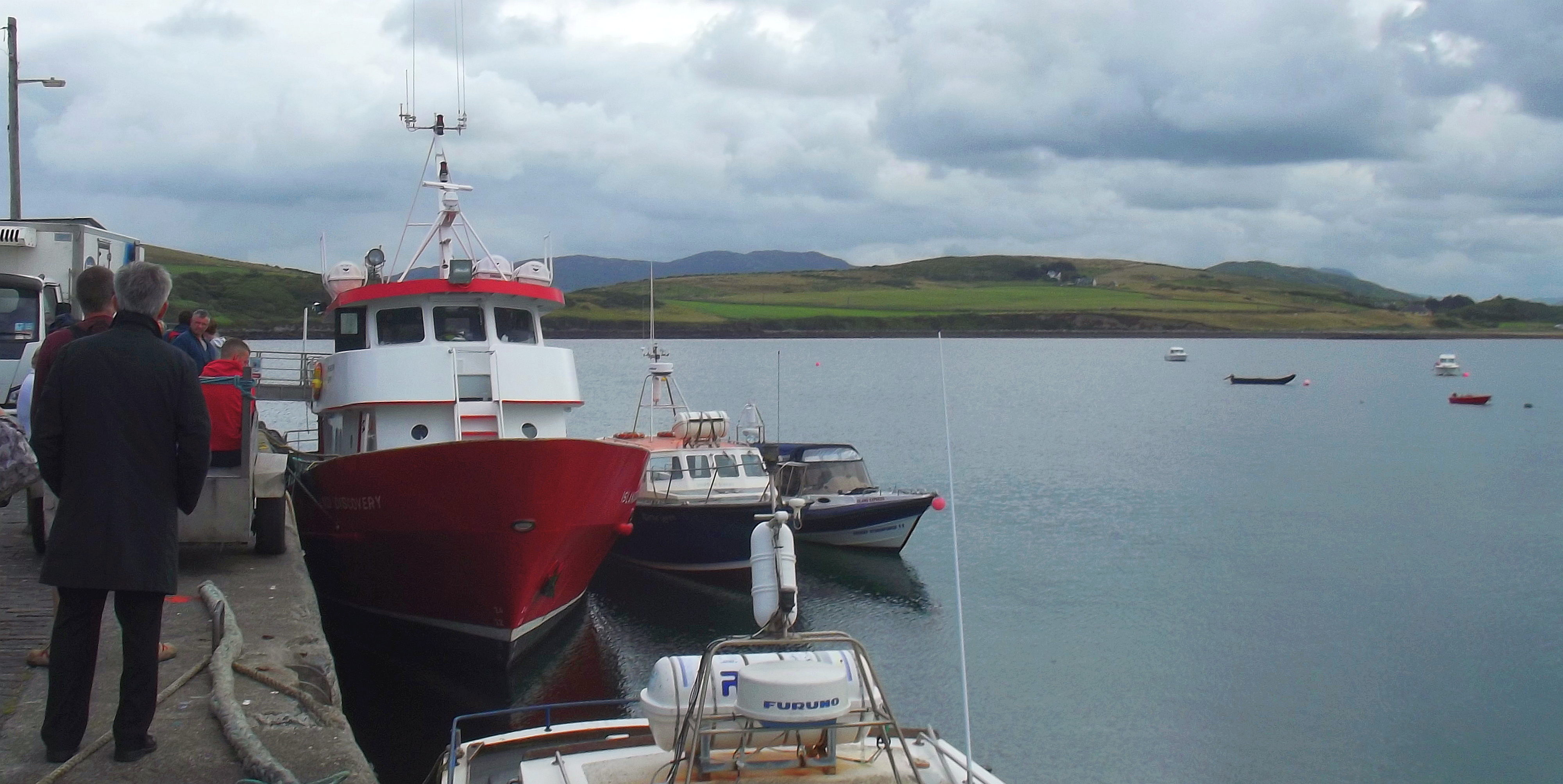 Cleggan Bay (County Galway, Ireland)